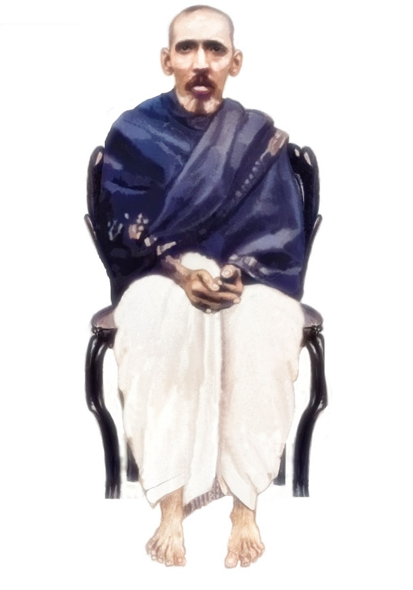 శ్రీ ఆణివిళ్ళ వేంకట శాస్త్రి గారు